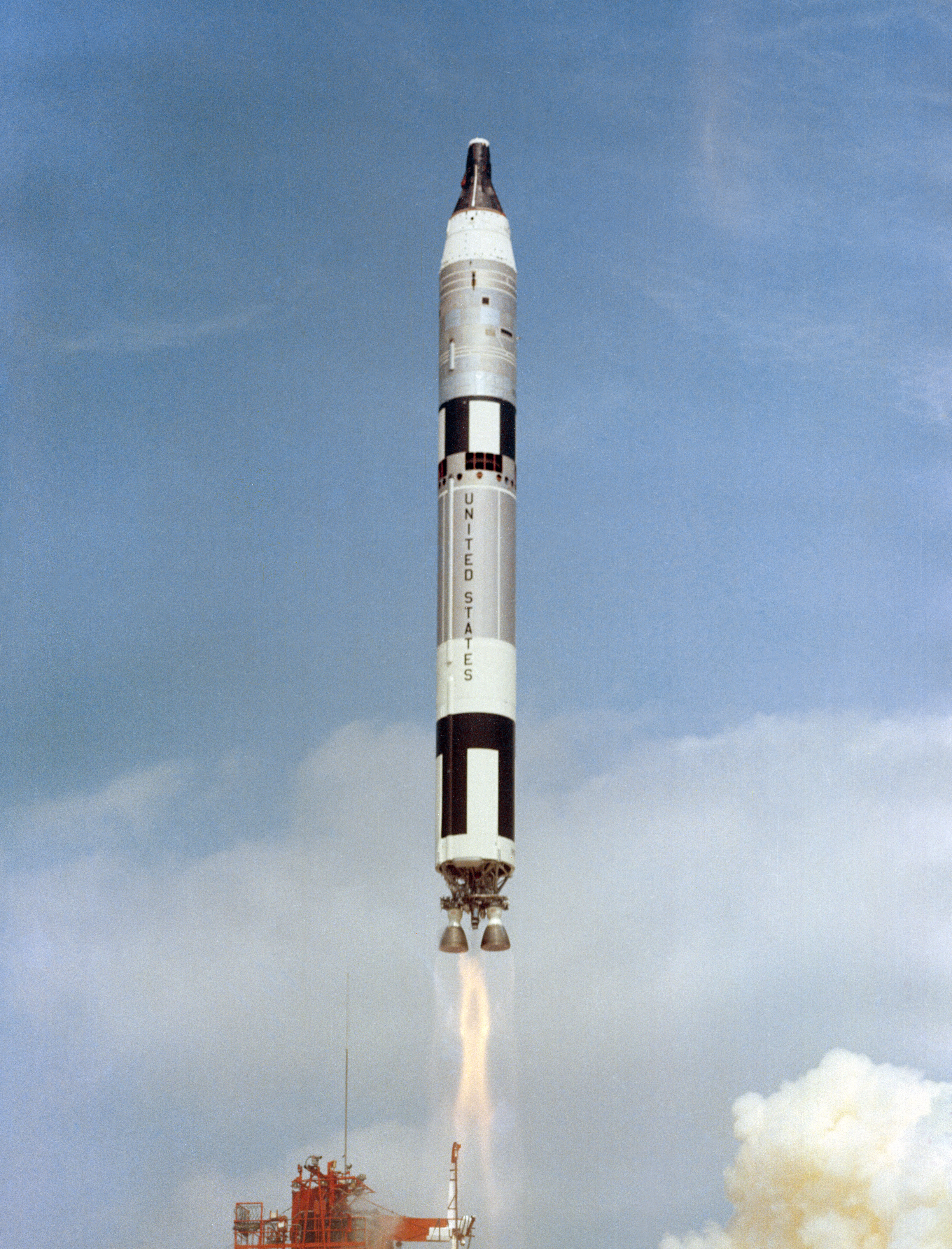 The Gemini 8 spacecraft was launched from the Kennedy Space Center at 11:41 A.M., March 16, 1966.